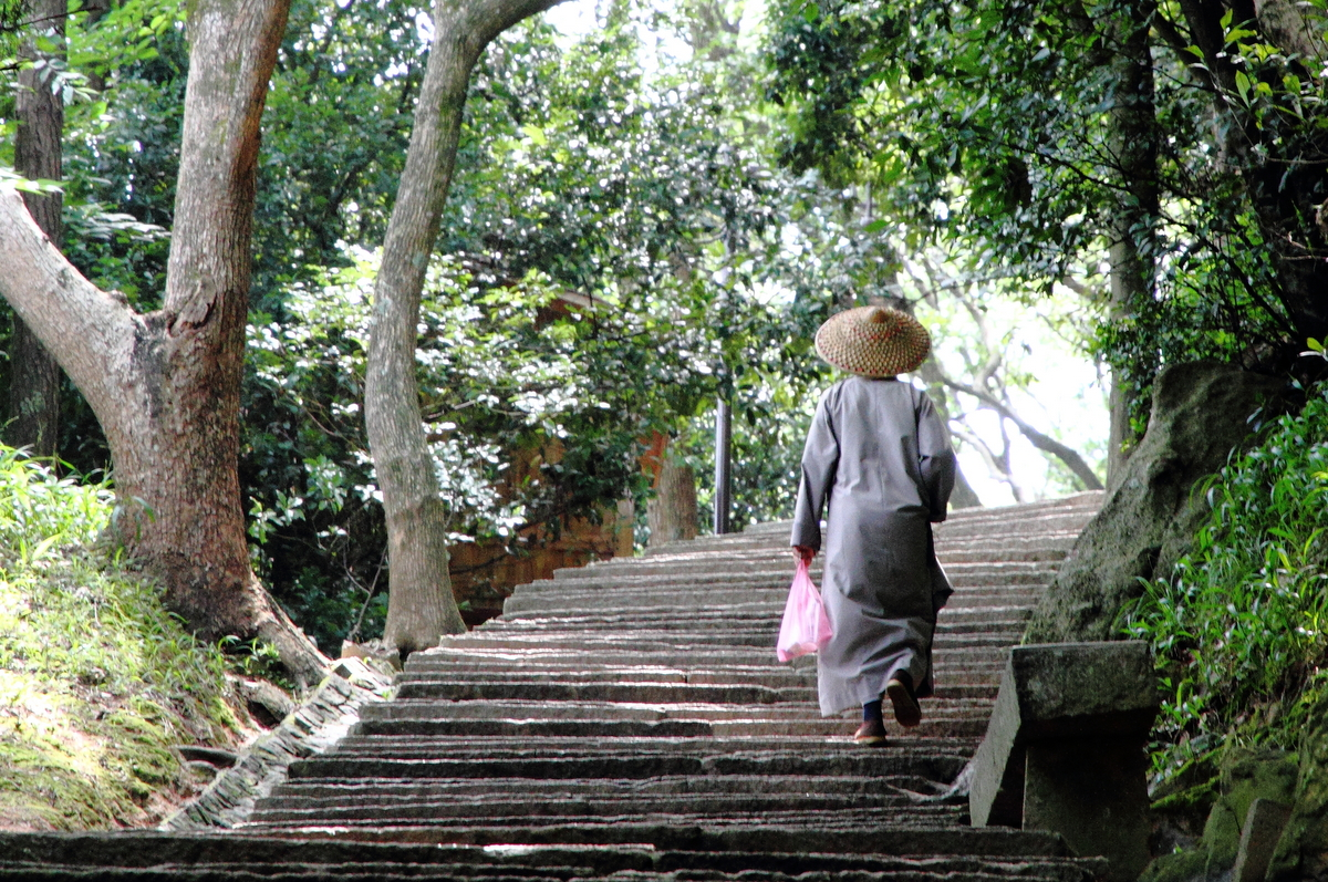 A Chinese nun ascending steps on Mount Putuo Shan island